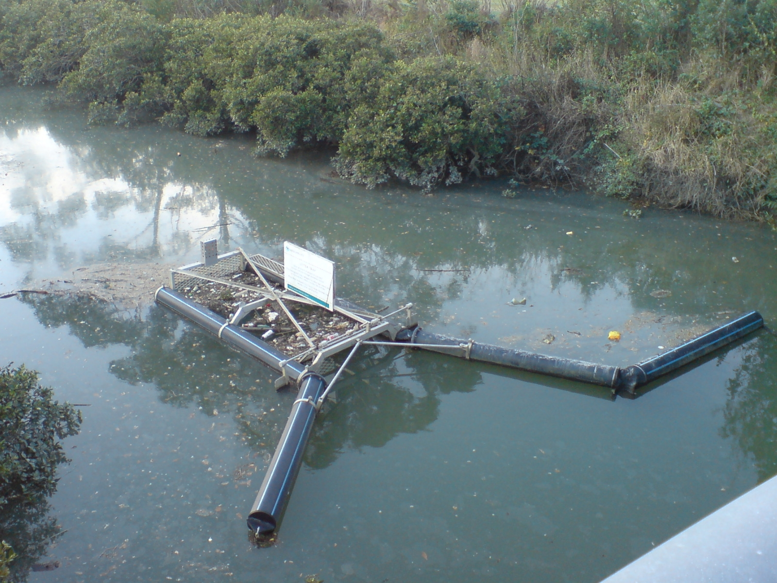 A garbage collection boom device in a little creek (Whau River) at the western end of Avondale in Auckland, New Zealand.